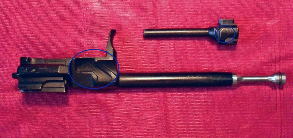 AKS74U bolt & bolt carrier